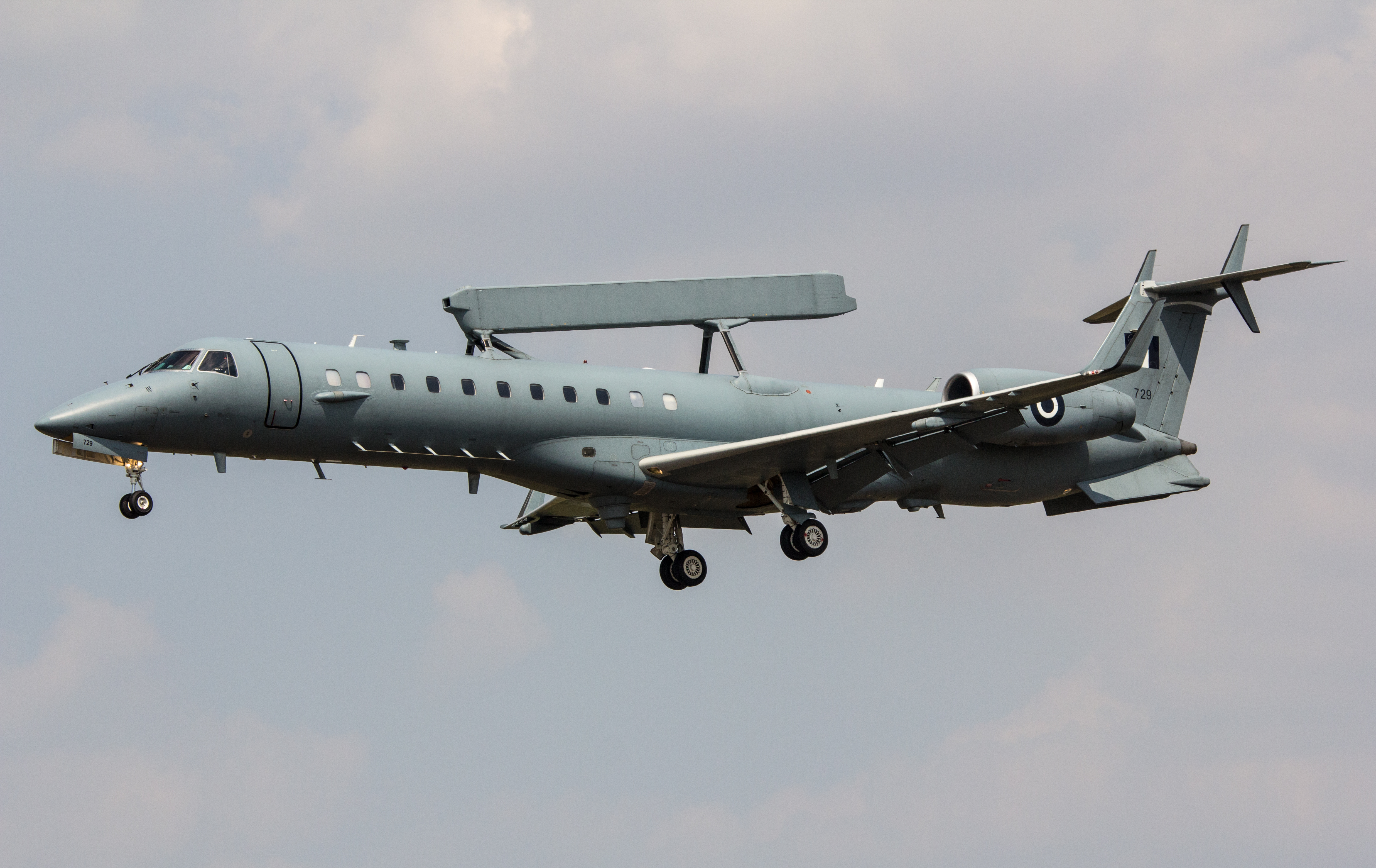 Royal International Air Tattoo 2013, Gloucestershire